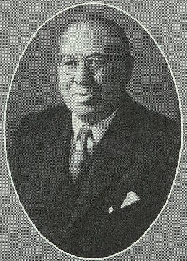 James M. Fitzpatrick, Congressman from New York